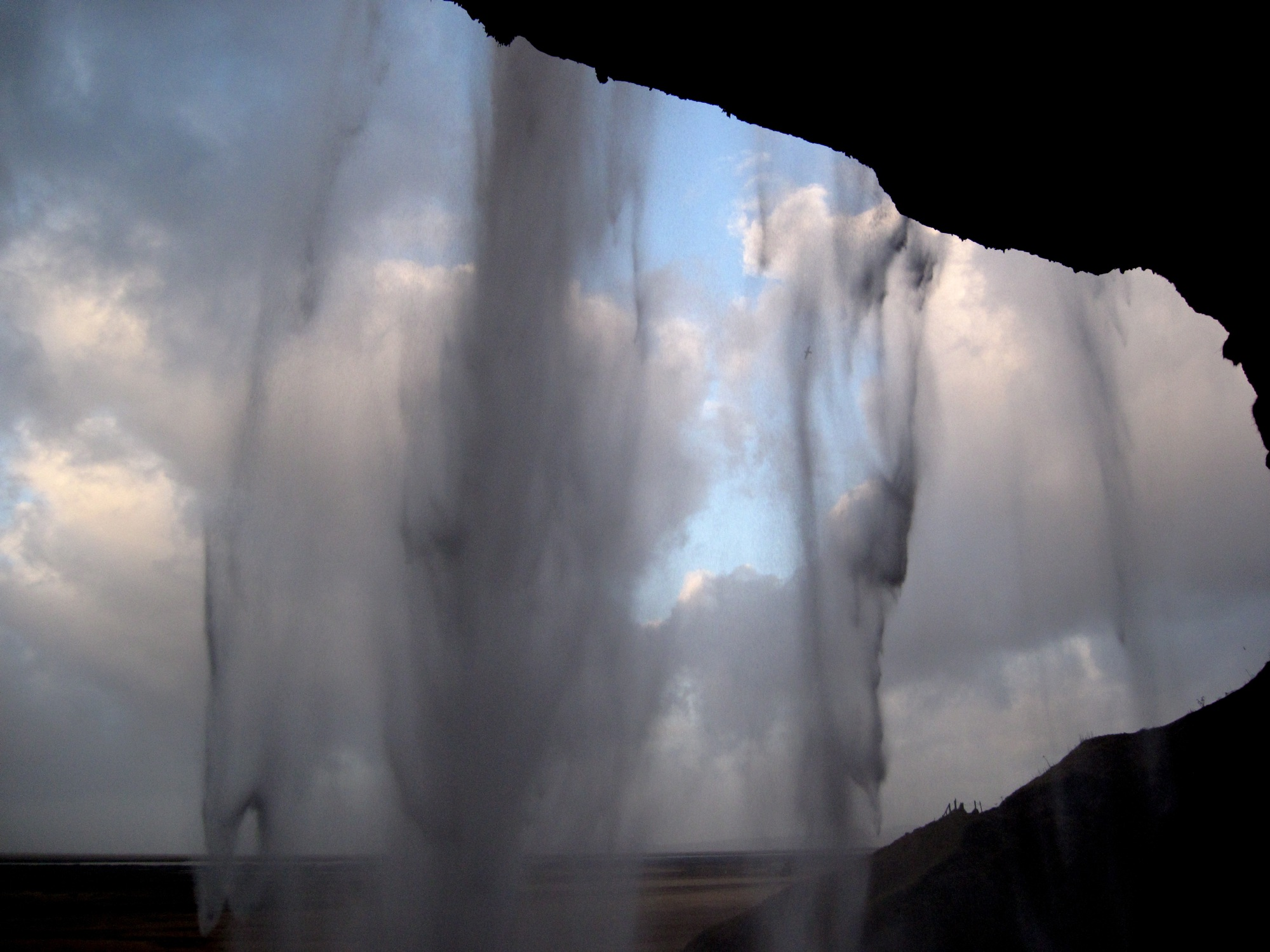 View of Seljalandfoss from the trail that goes behind it.